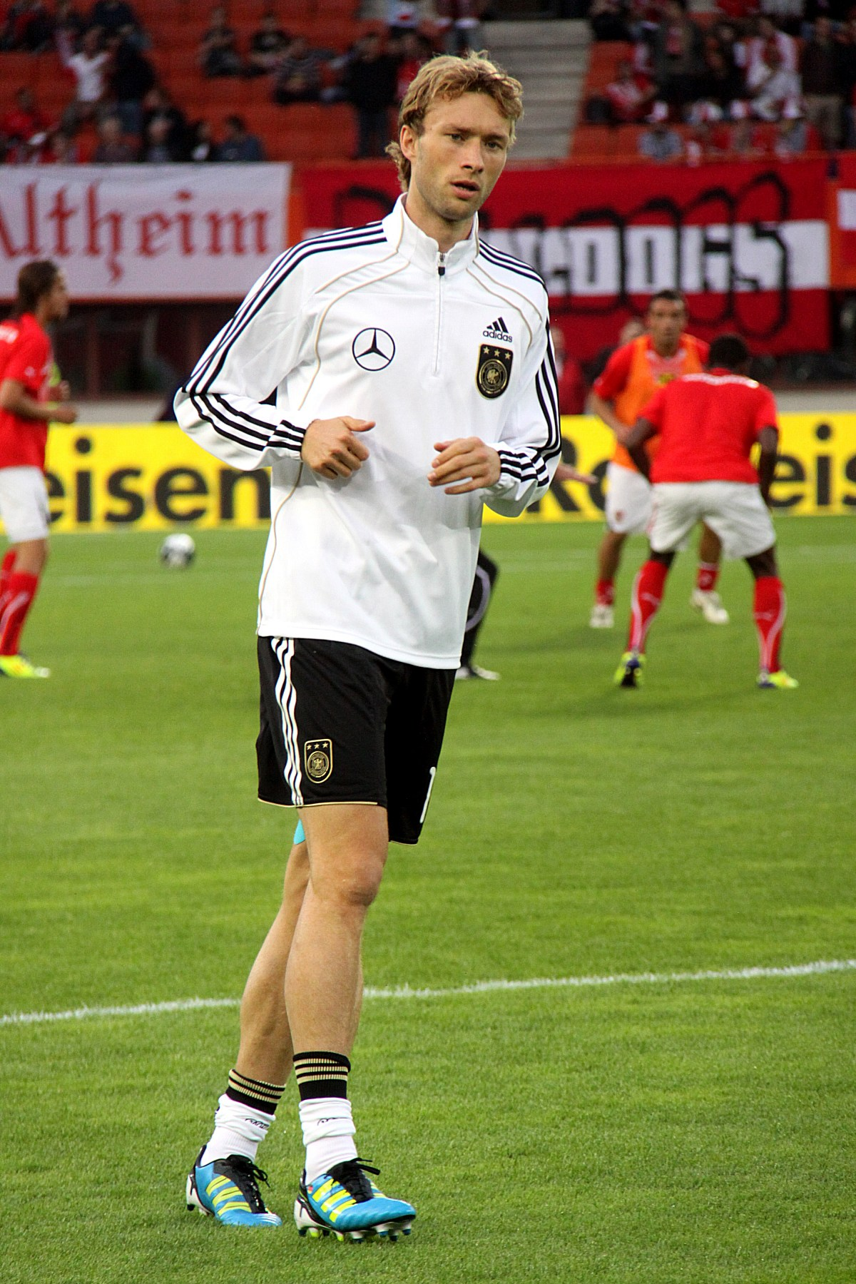 Simon Rolfes (Bayer 04 Leverkusen), german national football team - OpenStreetMap(Info)